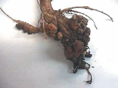 Photo of plant roots showing symptoms of club root